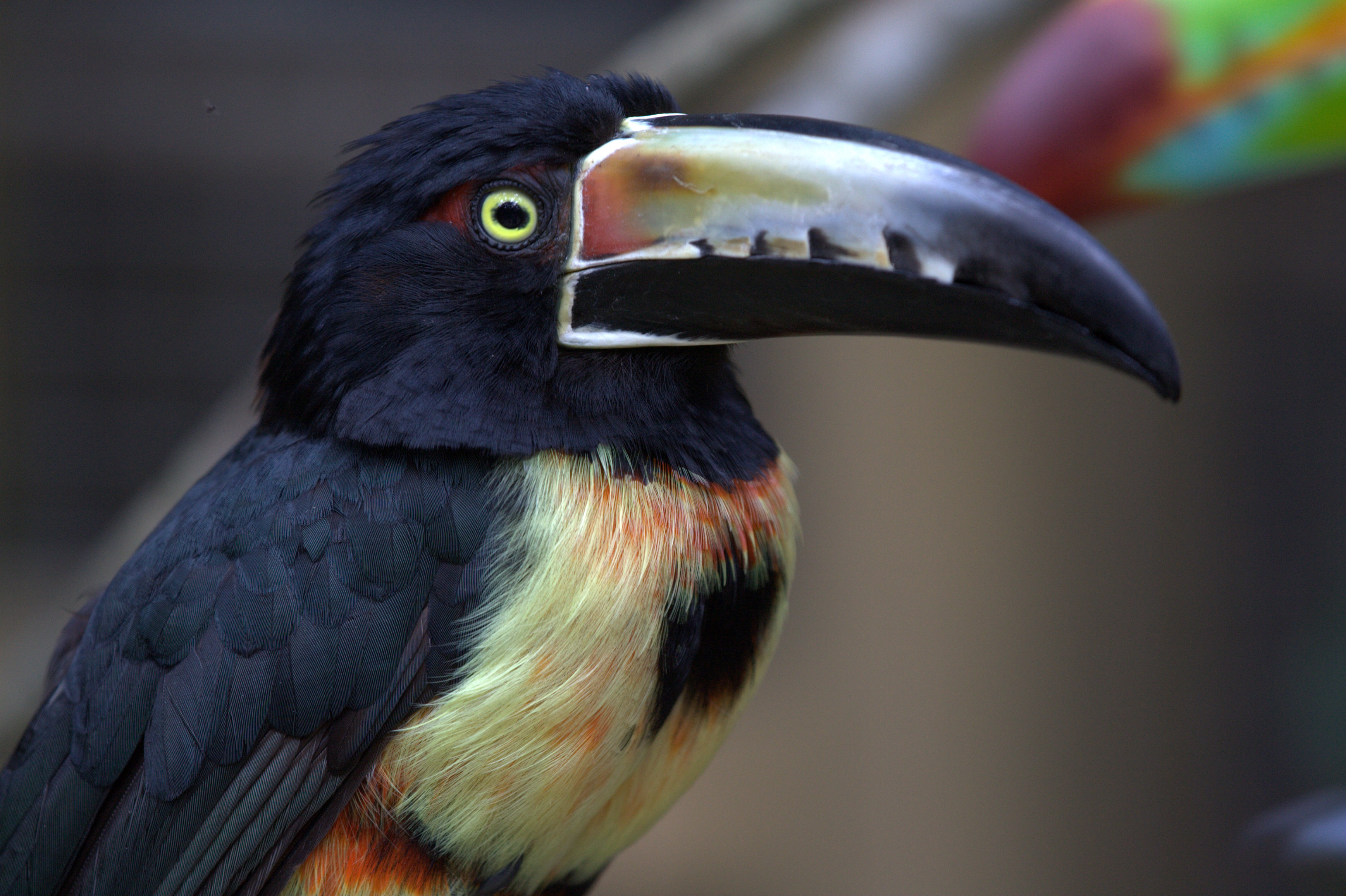 Collared Aracari, at Macaw Mountain Bird Park & Nature Reserve, Honduras.